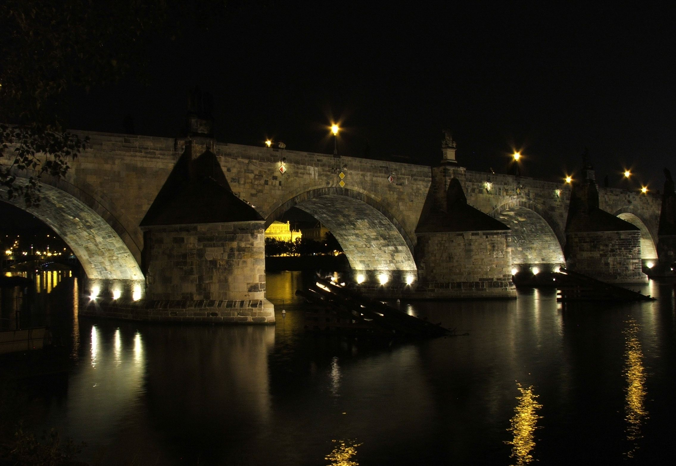 Charles Bridge in by nightPrague Česky: Karlův most v noci